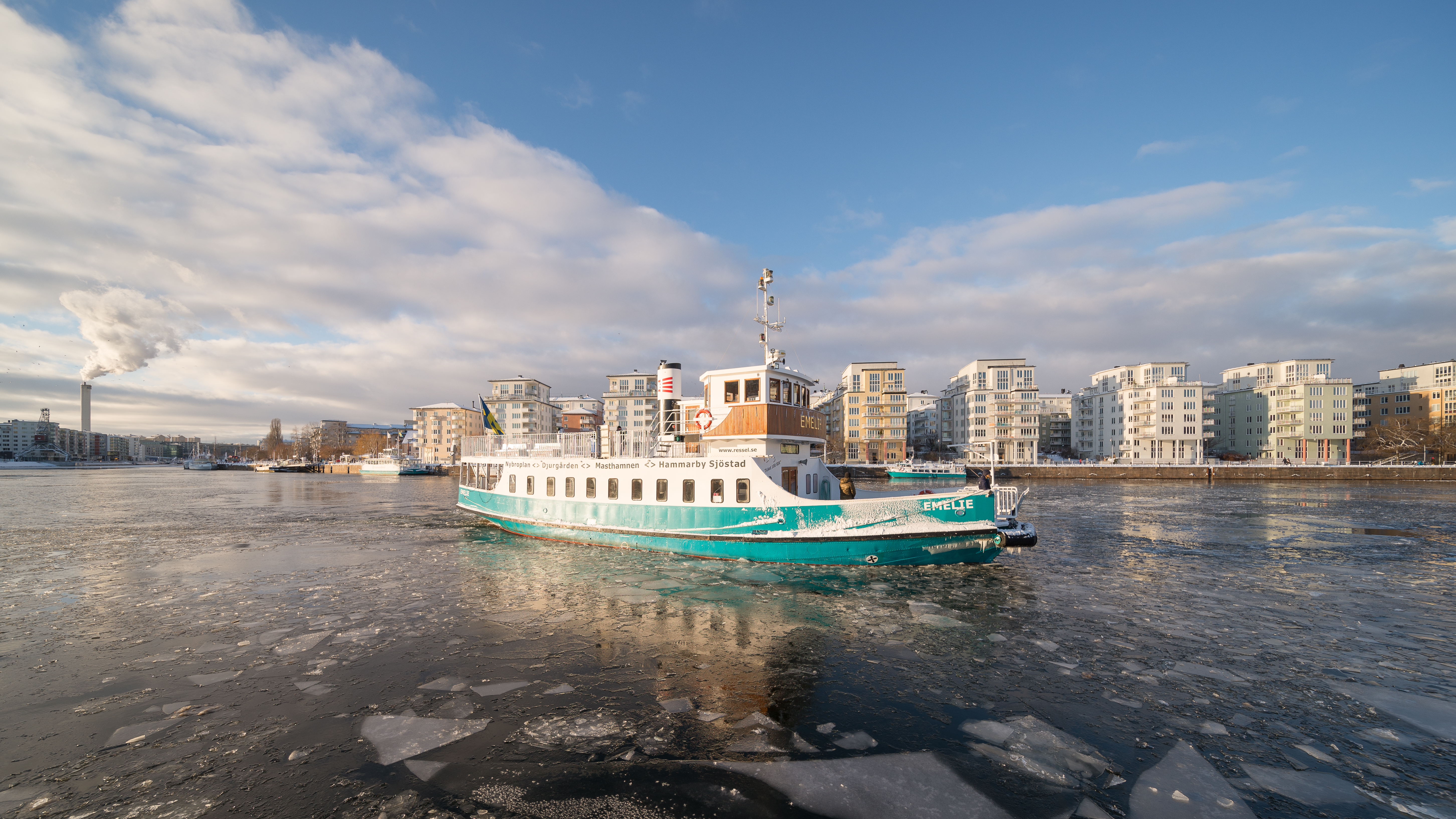 The commuter ferry Emelie arriving in Henriksdalshamnen, Stockholm. In the background, Norra Hammarbyhamnen (Södermalm).